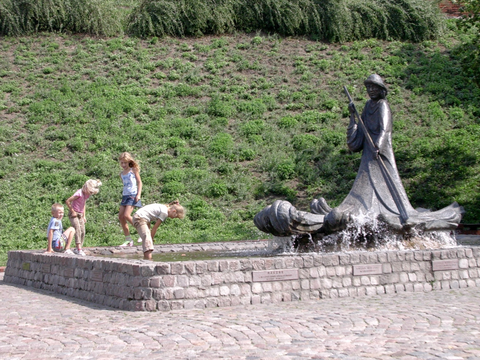 Sights of Grudziądz.